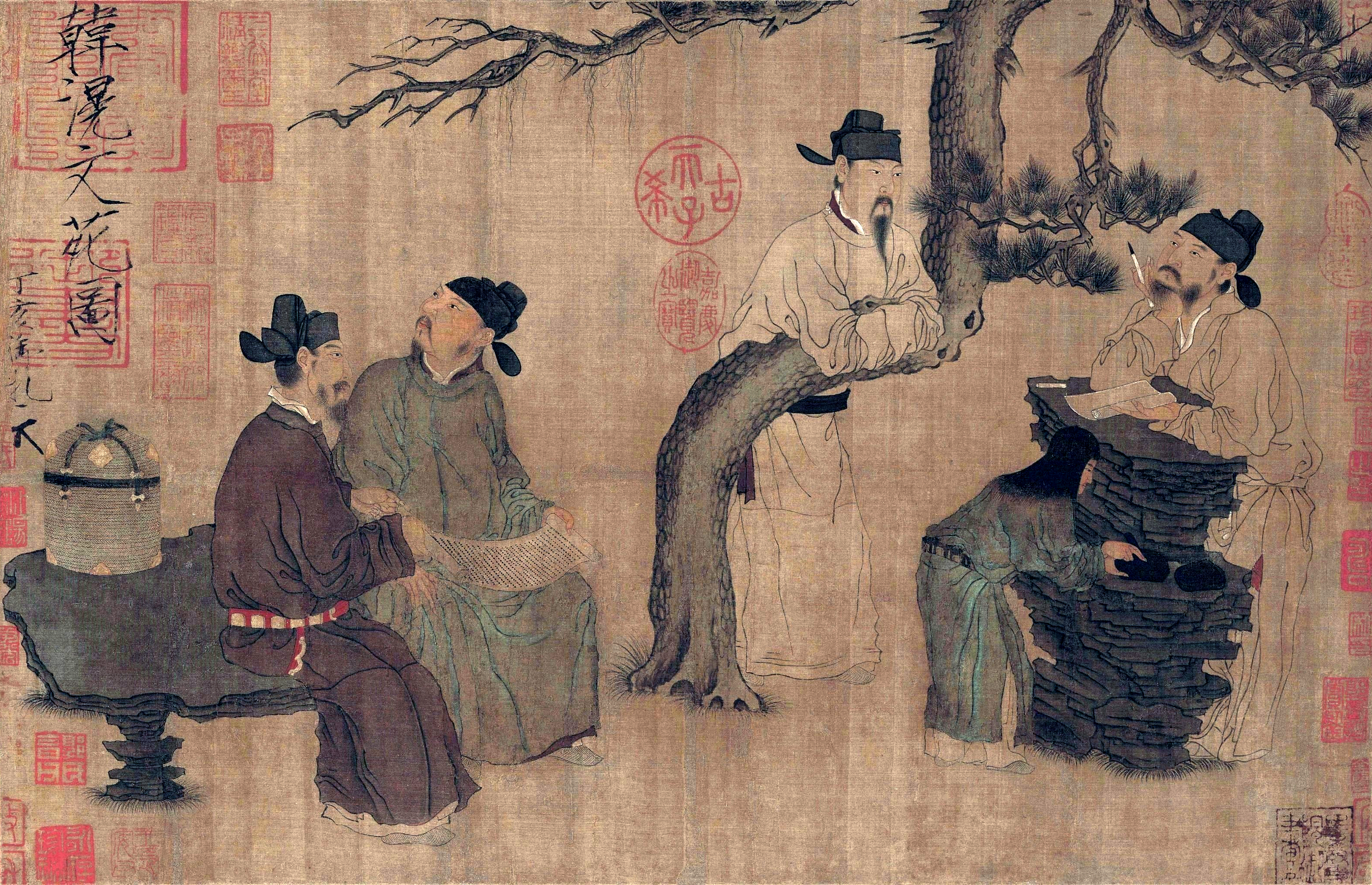 Chinese painting of A Literary Garden, handscroll, ink and colors on silk, 30.4 x 58.5 cm.